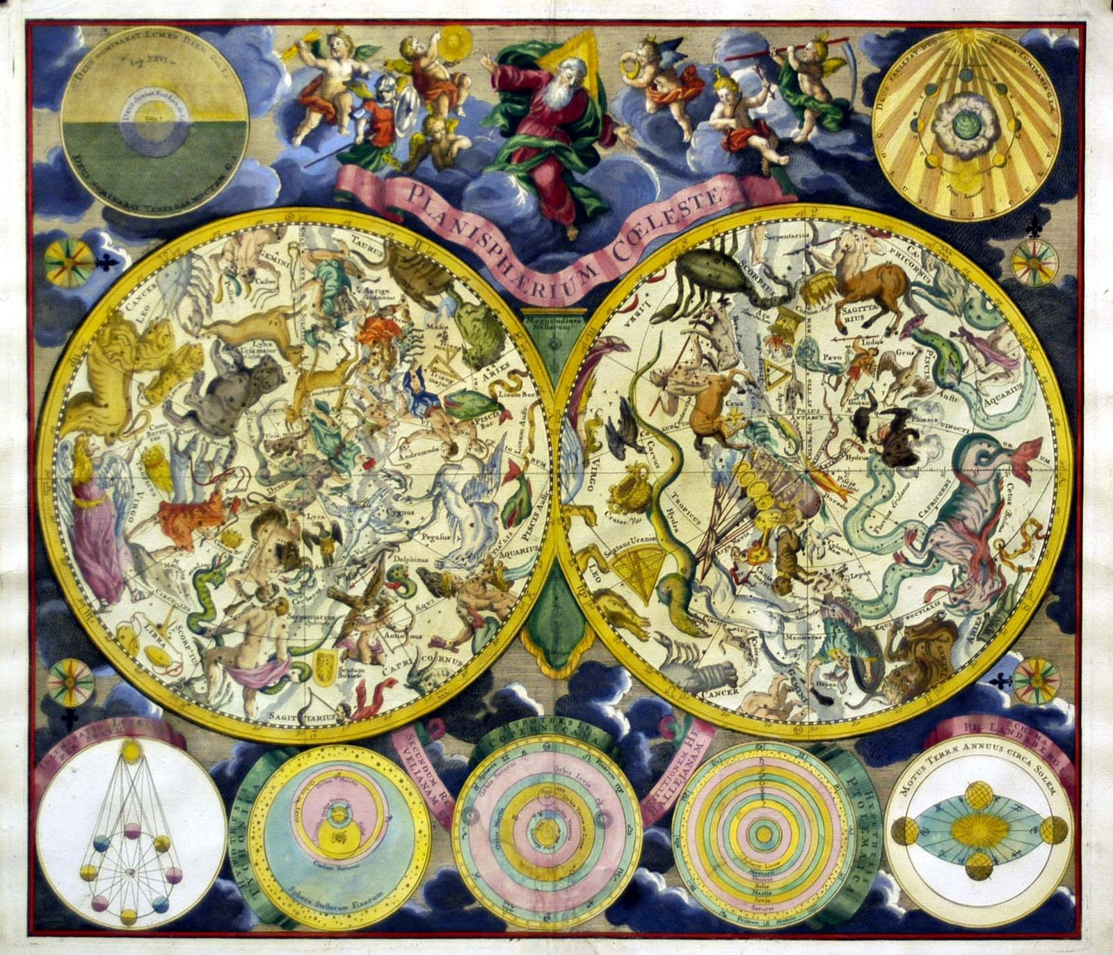 Planisphaerium Coeleste, by G. C. Eimmart (first published in 1705, copy probably by Matthäus Seutter (Augsburg), c. 1730); 56.5 x 49 cm